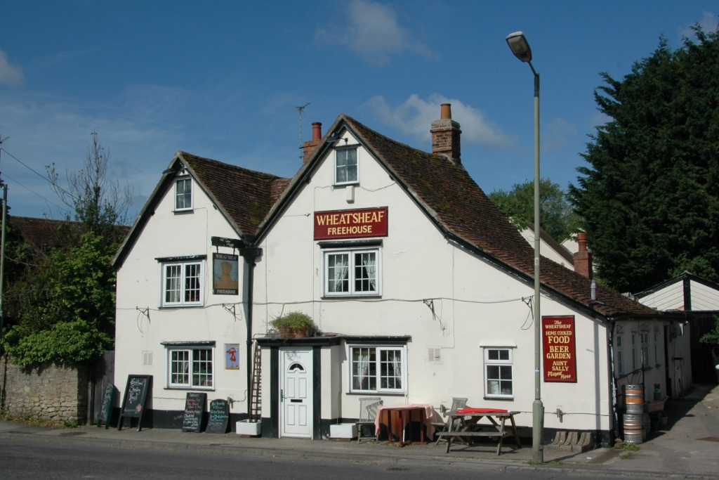 The Wheatsheaf pub, The Green, Drayton, Vale of White Horse, Oxfordshire (formerly Berkshire)